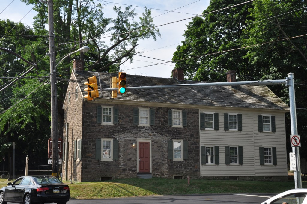 Historic house at the corner of Yardley-Langhorne Road and Stony Hill Road in Lower Makefield Township; part of the Village of Edgefield Historic District.